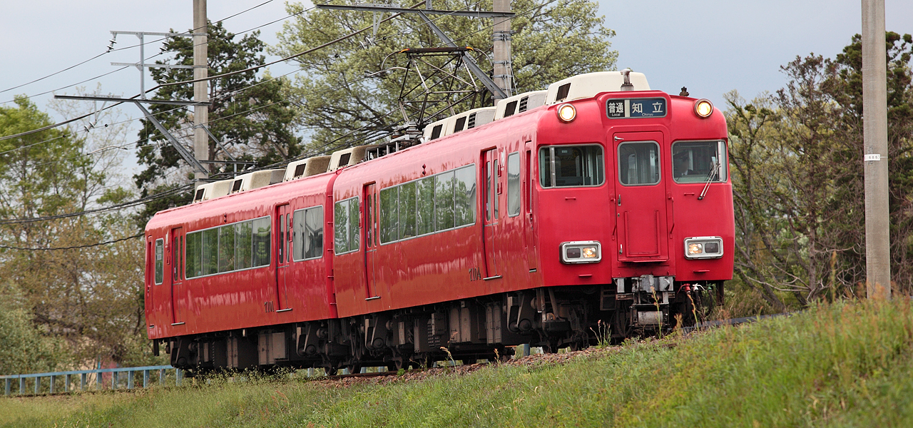 Meitetsu 7100 series EMU ( 7101F ), between Hiratobashi Sta. and Koshido Sta.